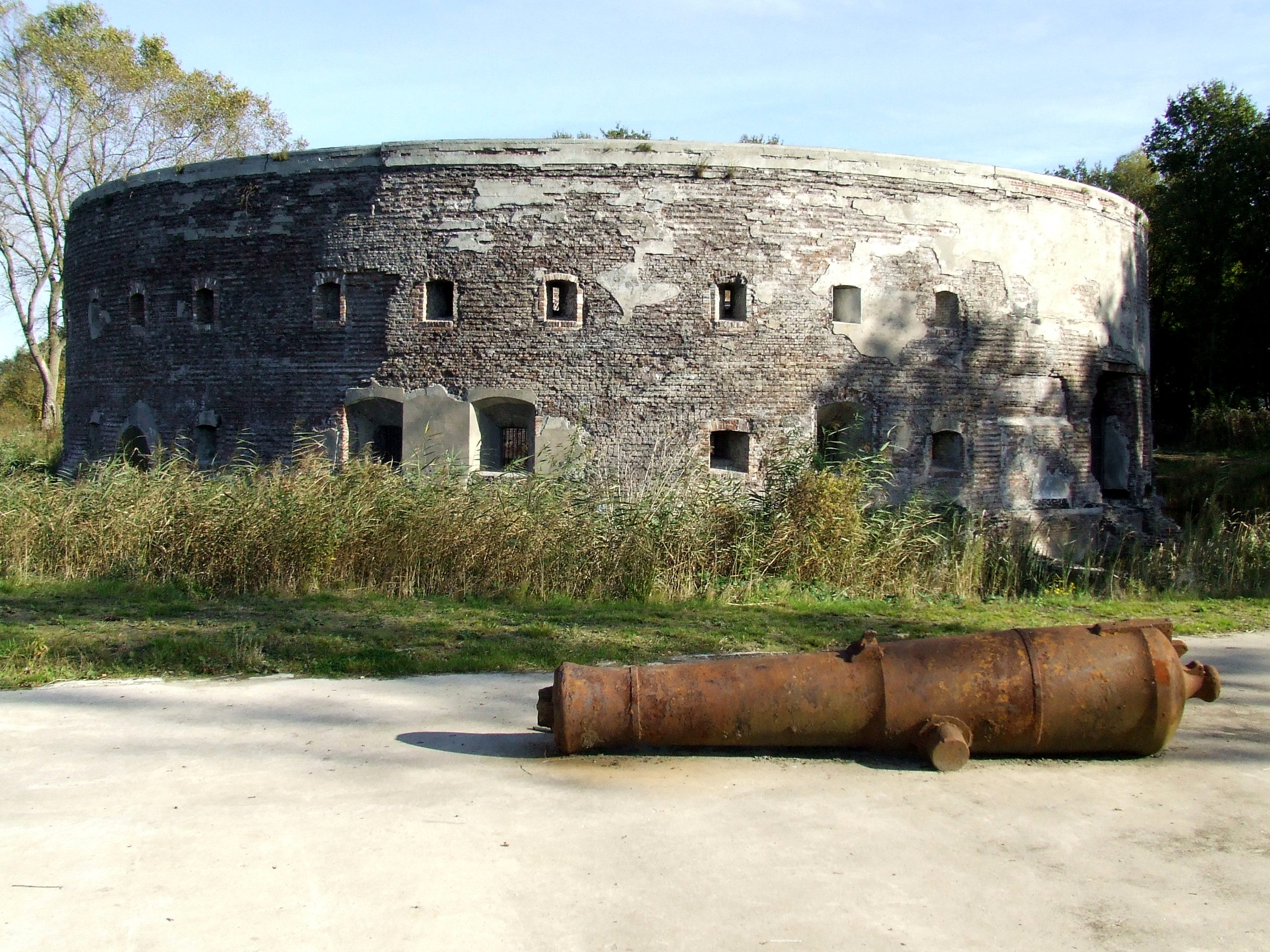 Fortress Uitermeer Holland